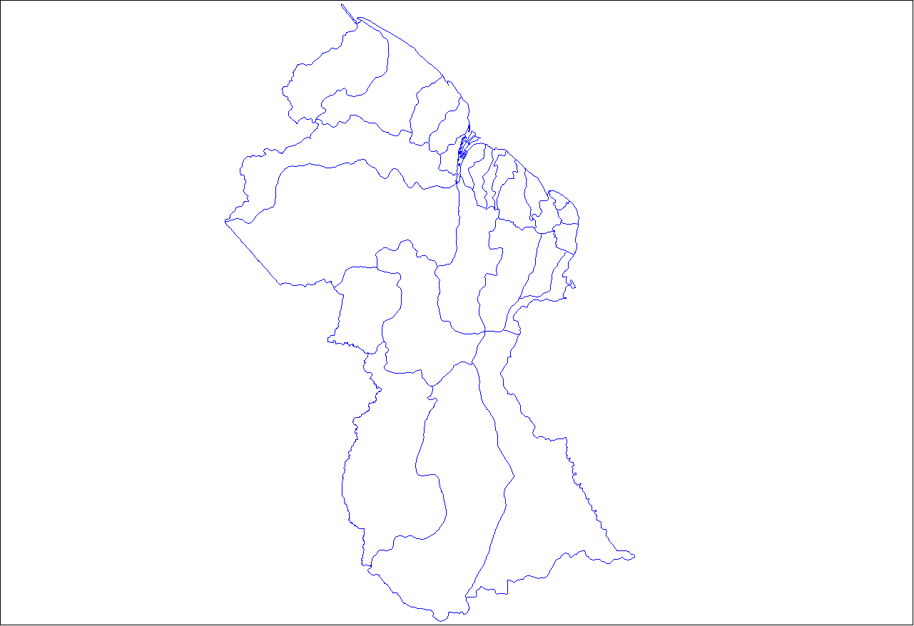 Map of the neighborhood councils of Guyana. Created by Rarelibra 16:27, 12 April 2007 (UTC) for public domain use, using MapInfo Professional v8.5 and various mapping resources.